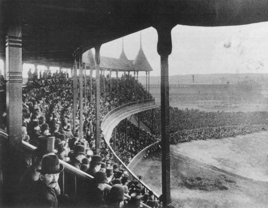 A view from the grandstand of the South End Grounds (circa 1888). Source from Taken from the PNG version, which won't display on my PC for some unknown reason.